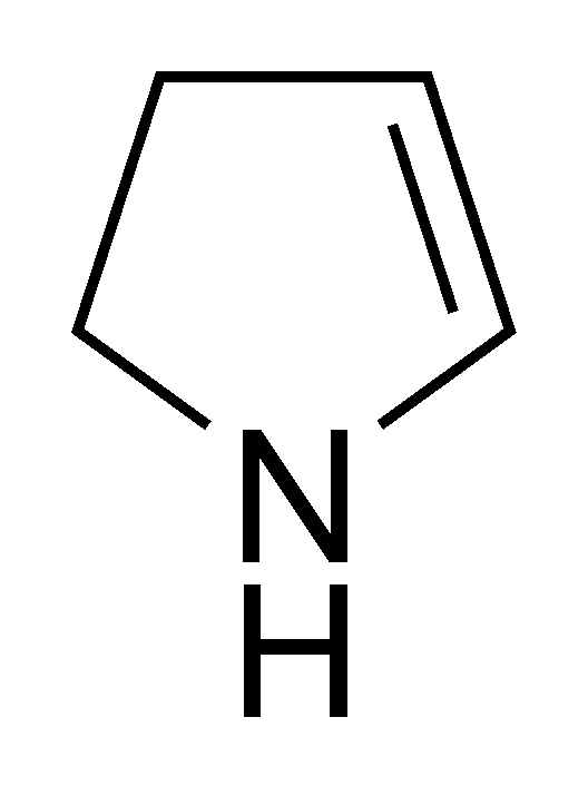 Chemical structure of 2-pyrroline